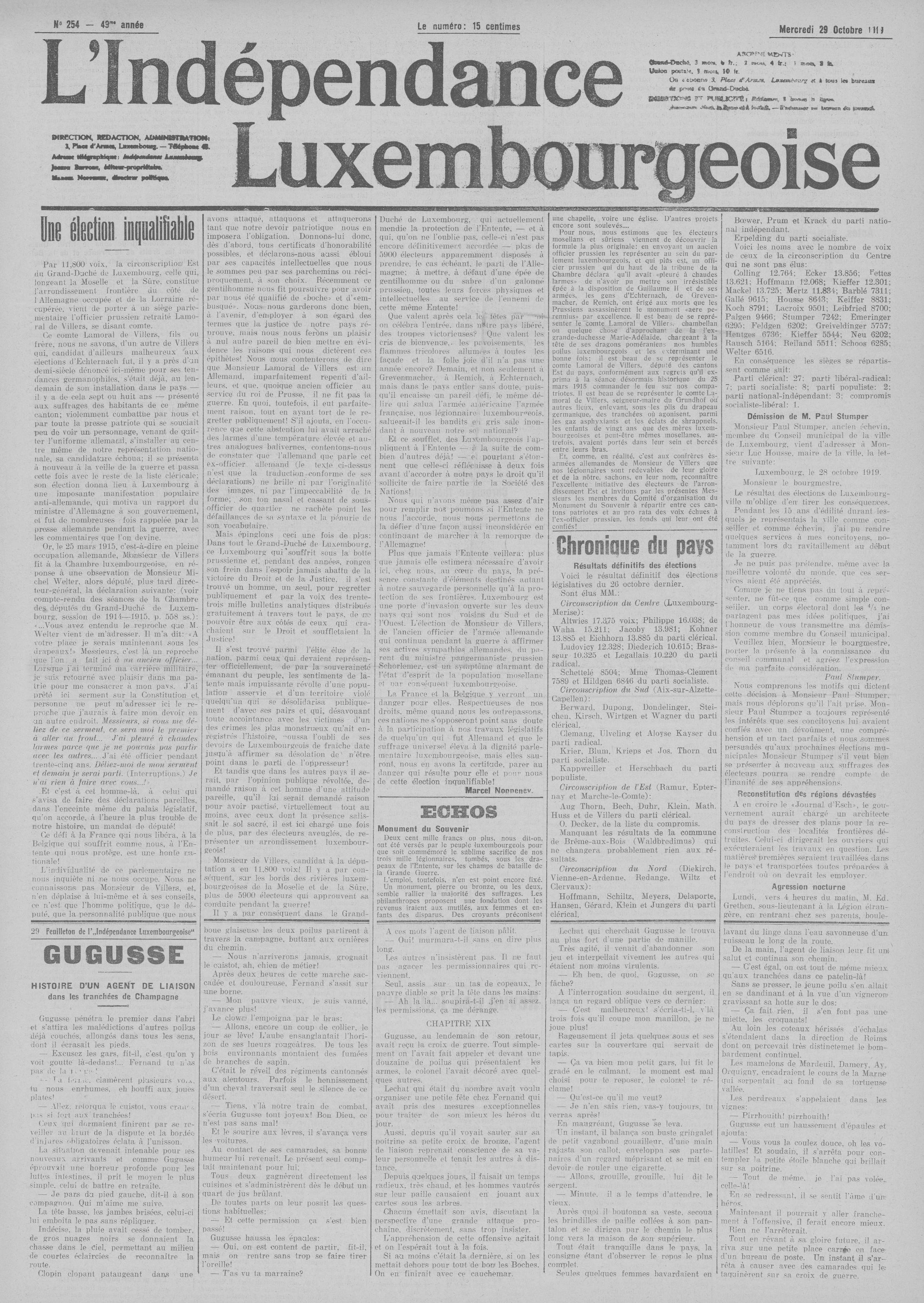 Analysis of the elections in the Luxembourgish newspaper L'Indépendance luxembourgeoise on 29 October 1919.